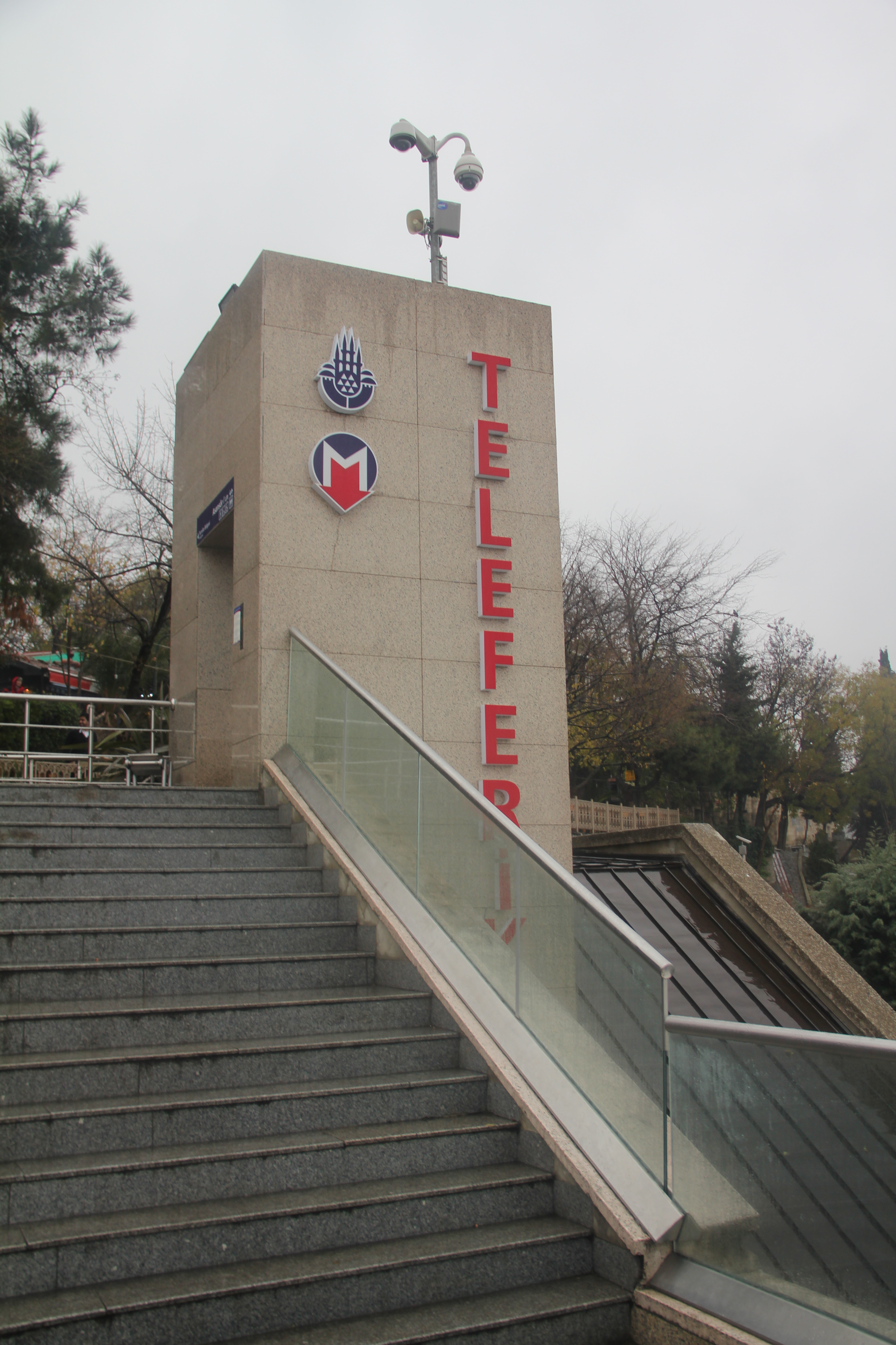 Istanbul metro, Pierre-loti telpher station